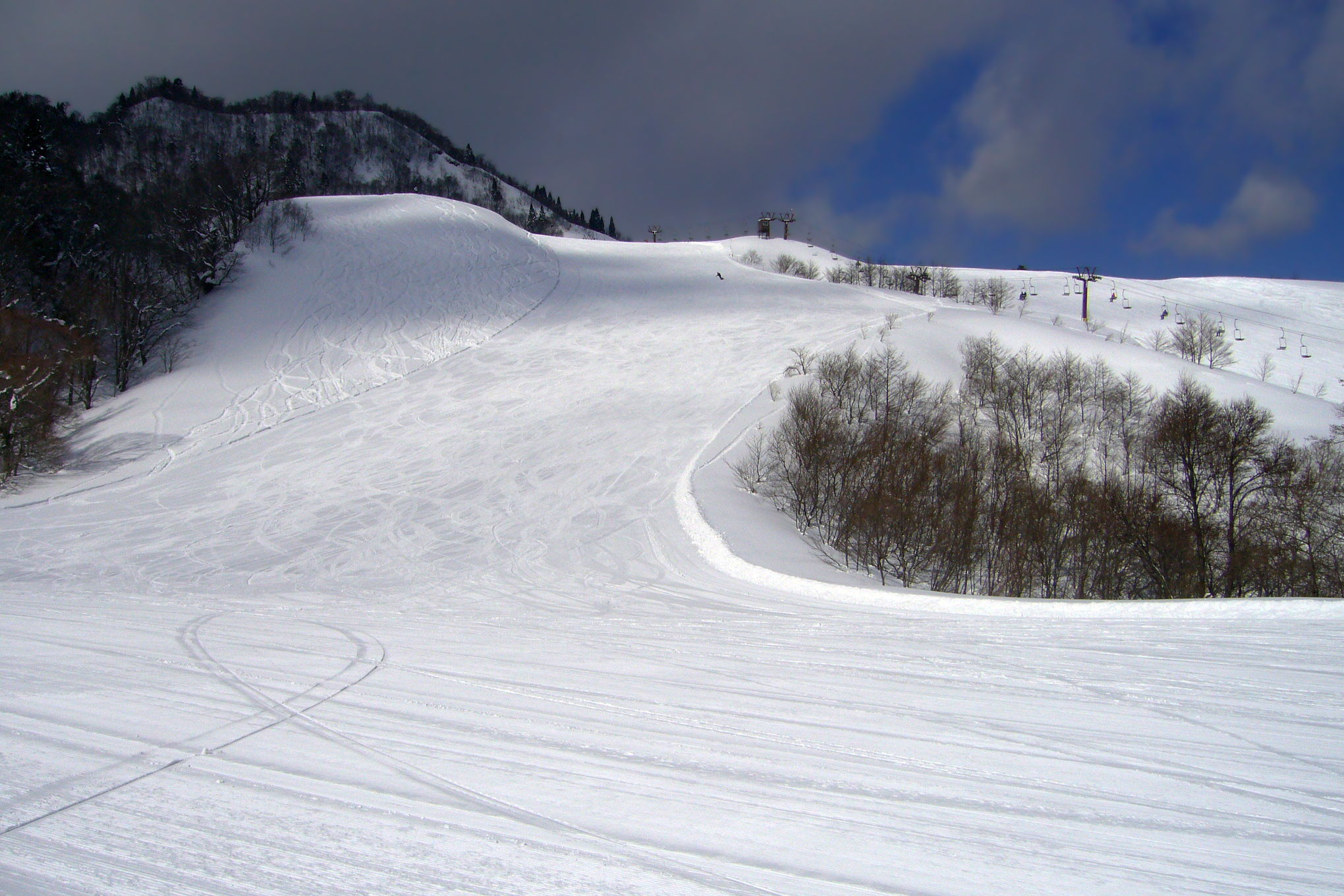 Mt.Hyonosen, Hyonosen International Ski resort in Yabu, Hyogo, Japan